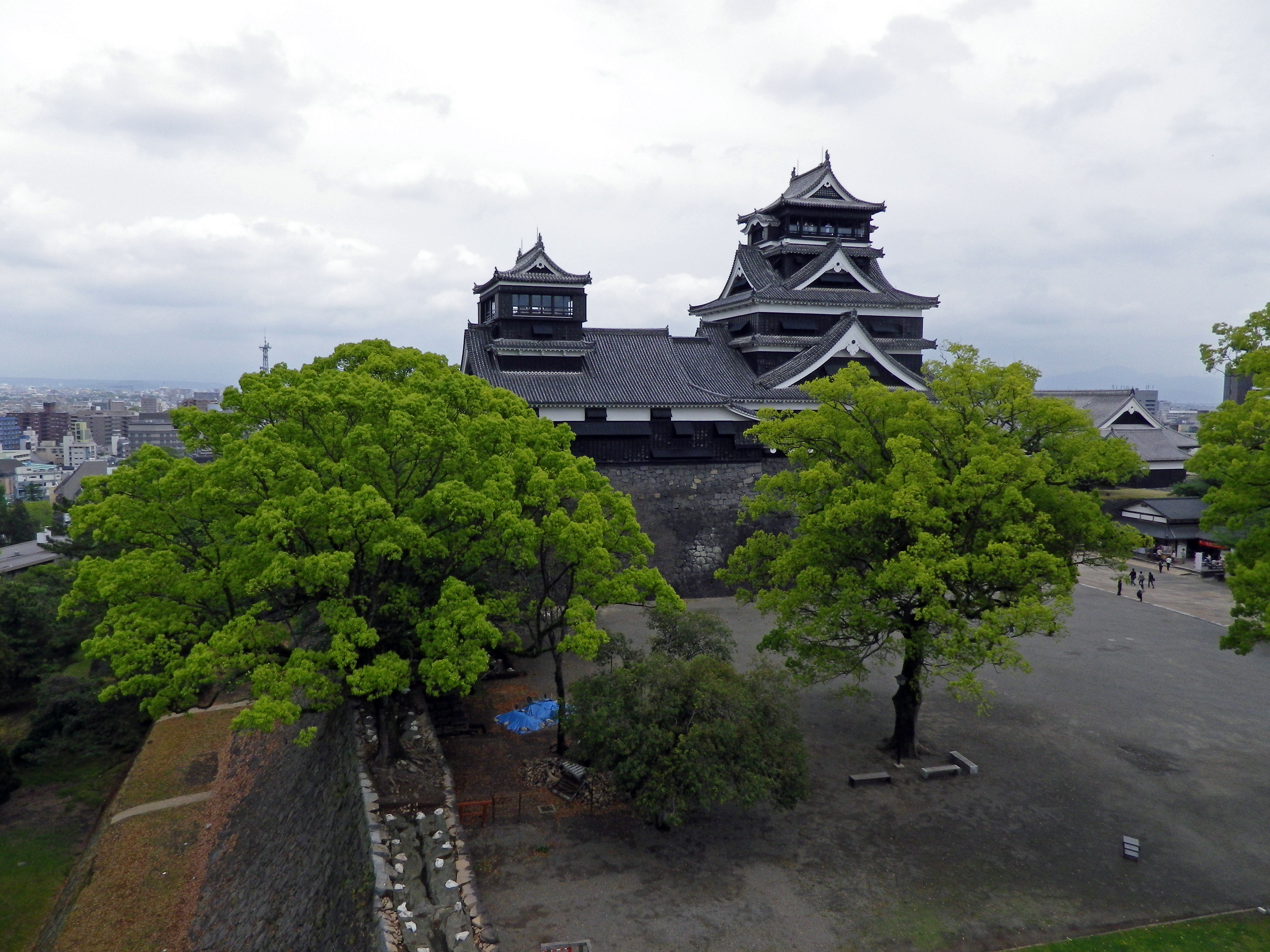 The Keep of Kumamoto Castle from Uto Yagura